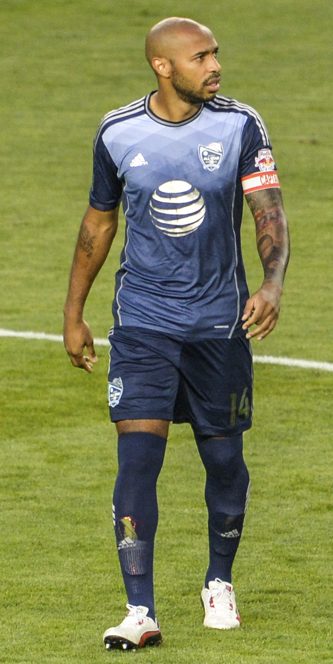 Thierry Henry of the New York Red Bulls, Forward, during the the MLS All Star game at Sporting Park, Kansas City, Kansas on July 31st, 2013.